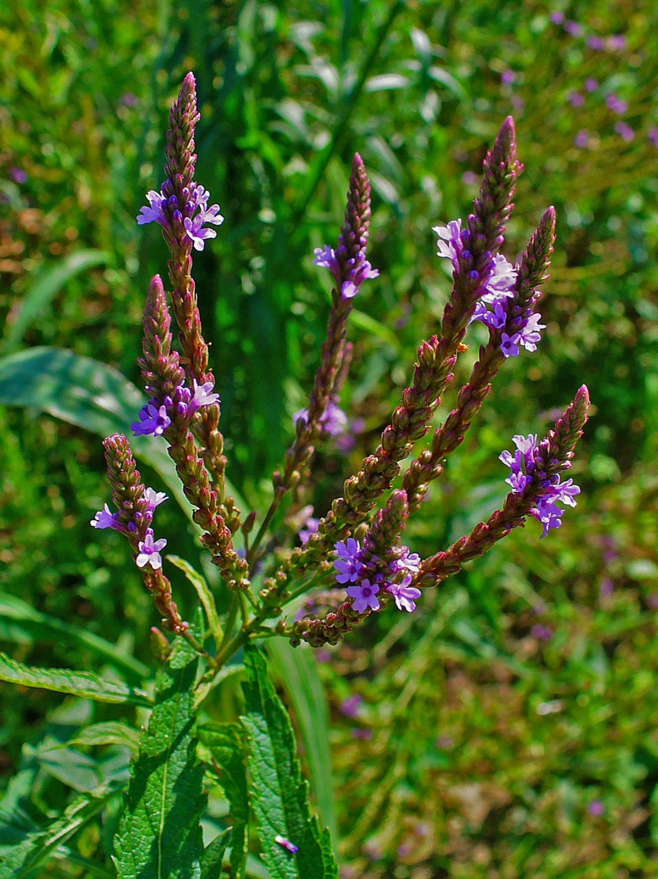 Verbena hastata, Verbenaceae, Blue Vervain, Swamp Verbena, inflorescences.